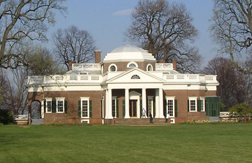 View of Thomas Jefferson's Monticello from the front. Taken by James Maxwell.